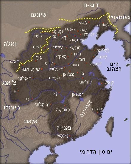 Political map of Qin Dynasty empire 210 BC, showing the capital Xianyang and the location of all commandery seats. The northern border is the line of the Qin Great Wall. Other frontiers are based on approximate extent of Qin political authority.